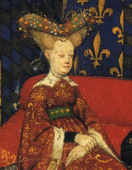 Detail of a presentation miniature with Christine de Pisan presenting her book to queen Isabeau of Bavaria. Illuminated miniature from The Book of the Queen (various works by Christine de Pizan), BL Harley 4431.